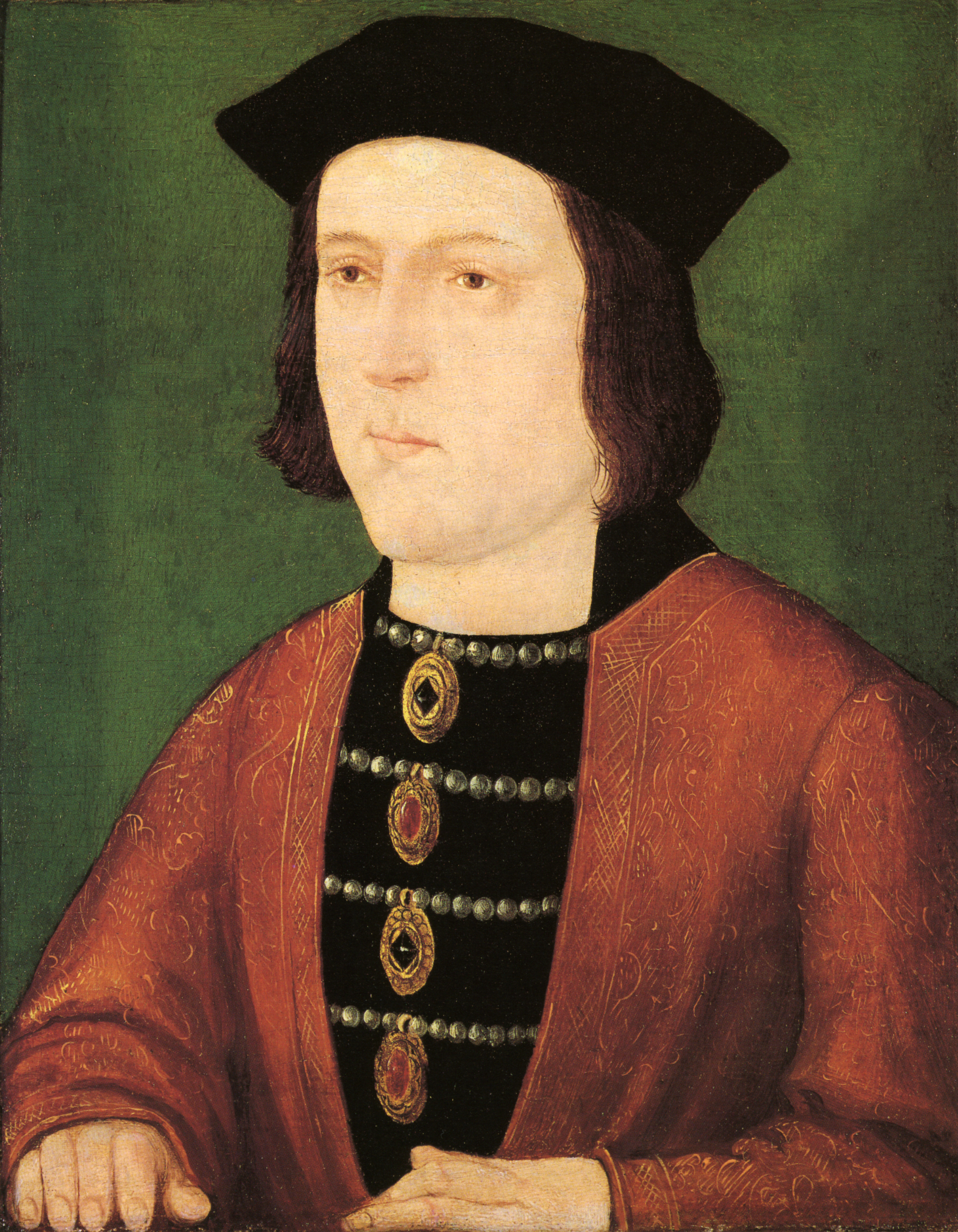 This image is a JPEG version of the original PNG image at File: King Edward IV.png. Generally, this JPEG version should be used when displaying the file from Commons, in order to reduce the file size of thumbnail images. However, any edits to the image should be based on the original PNG version in order to prevent generation loss, and both versions should be updated. Do not make edits based on this version. See here for more information. King Edward IV, by Unknown artist, circa 1540. National Portrait Gallery: NPG 3542 While Commons policy accepts the use of this media, one or more third parties have made copyright claims against Wikimedia Commons in relation to the work from which this is sourced or a purely mechanical reproduction thereof. This may be due to recognition of the "sweat of the brow" doctrine, allowing works to be eligible for protection through skill and labour, and not purely by originality as is the case in the United States (where this website is hosted). These claims may or may not be valid in all jurisdictions. As such, use of this image in the jurisdiction of the claimant or other countries may be regarded as copyright infringement. Please see Commons:When to use the PD-Art tag for more information.See User:Dcoetzee/NPG legal threat for original threat and National Portrait Gallery and Wikimedia Foundation copyright dispute for more information. This tag does not indicate the copyright status of the attached work. A normal copyright tag is still required. See Commons:Licensing.